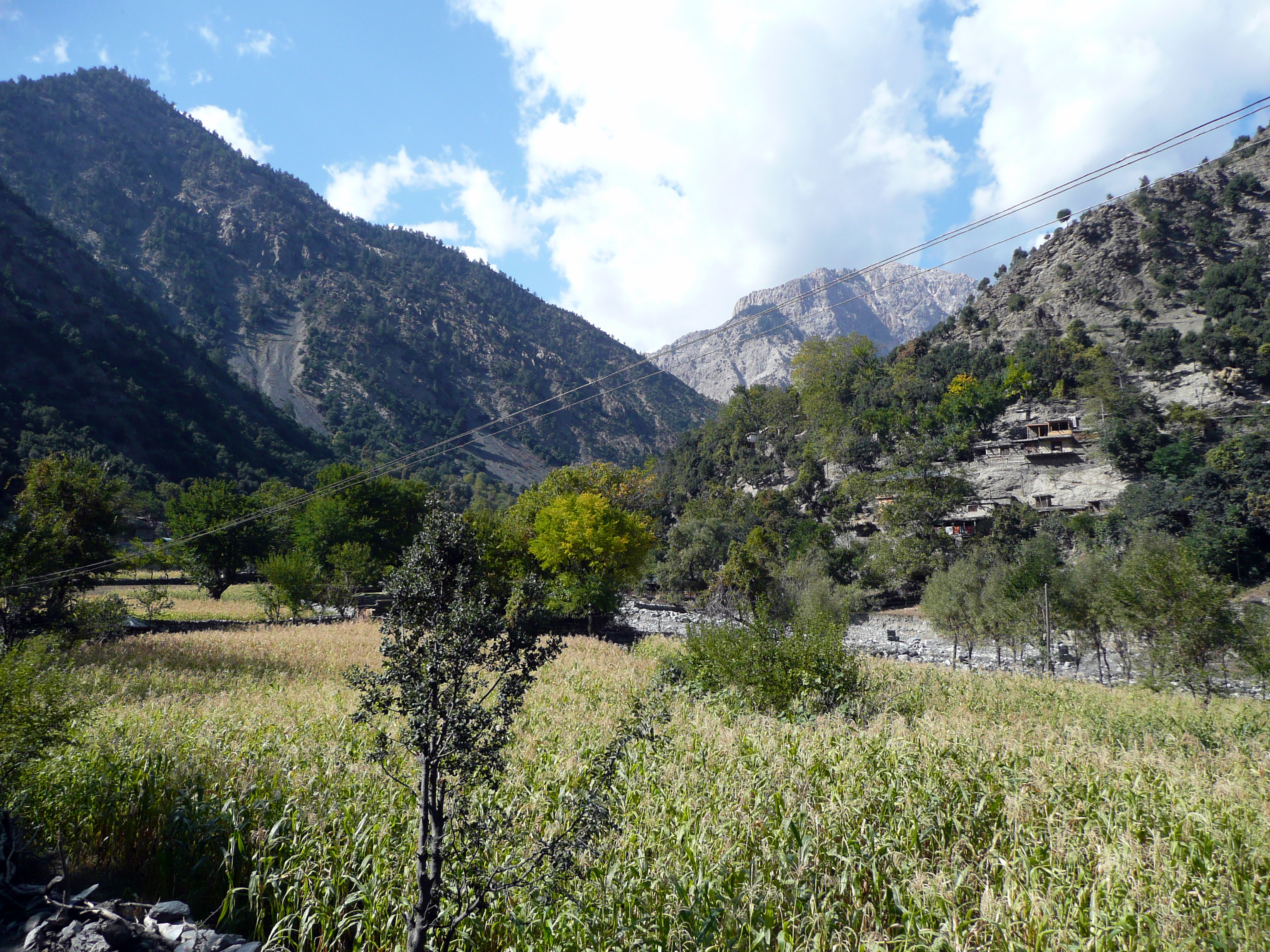 Biriu (Birir) valley